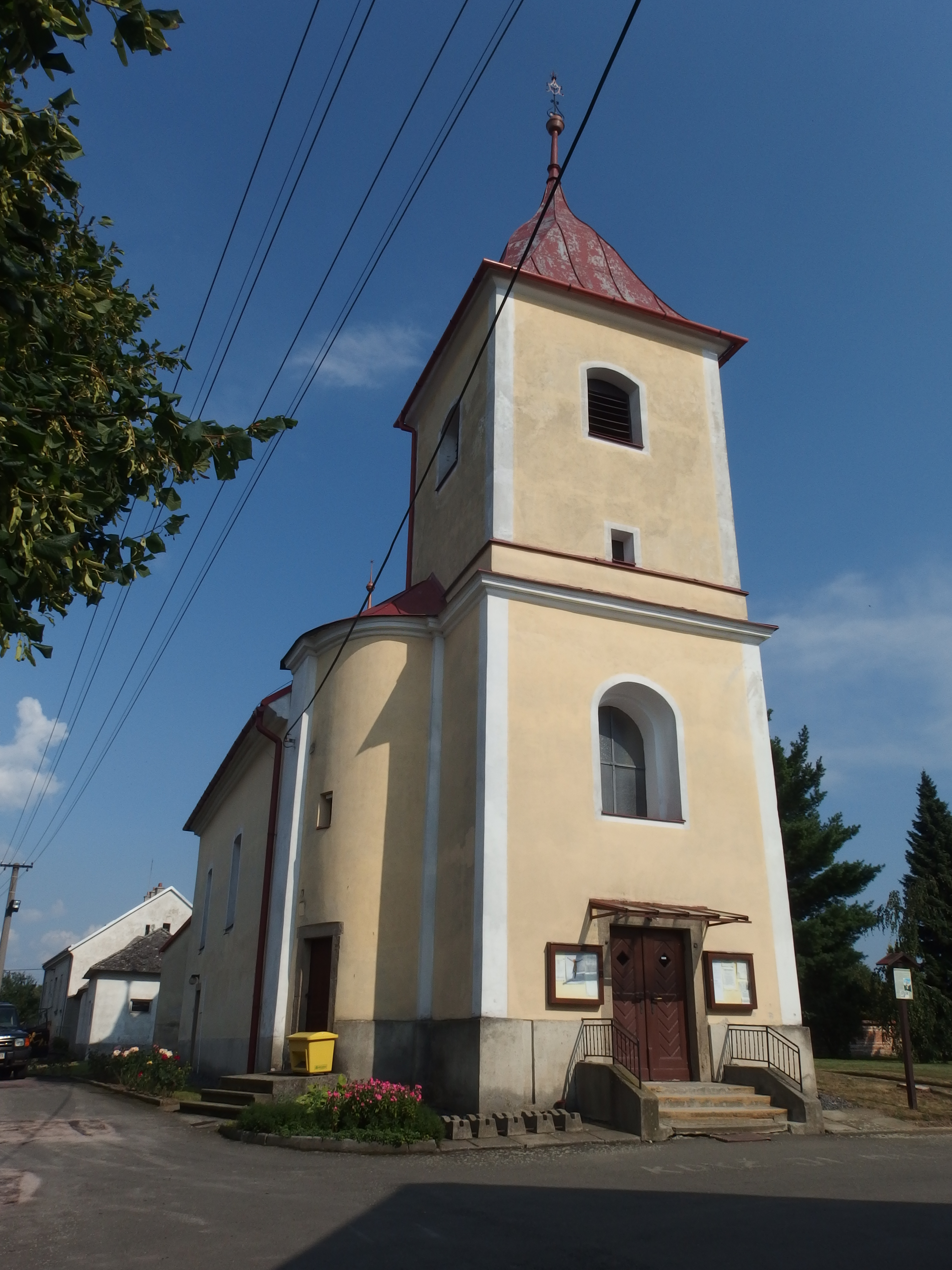 Horní Újezd, Přerov District, Czech Republic. Church of the Nativity of the Virgin Mary.